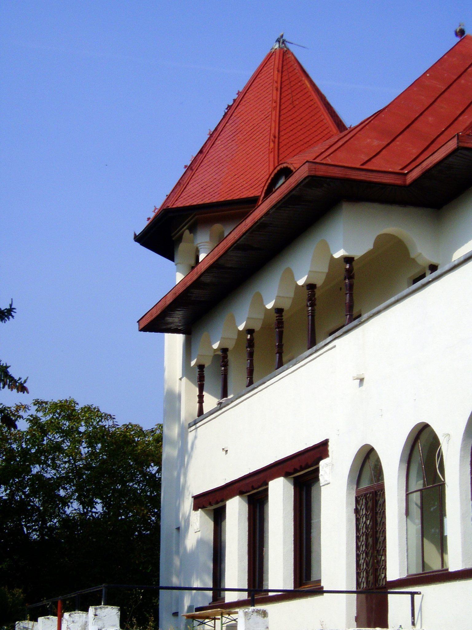 Gérard Joseph Duqué's manor ("Conac") in Pauleşti, Judeţul Prahova, Romania. Architect: Toma T. Socolescu. This building has been done between 1920 and 1935. We are the only heirs and descendants of Toma T. Socolescu (died in 1960 in Bucharest) and therefore owner of all his intellectual rights.